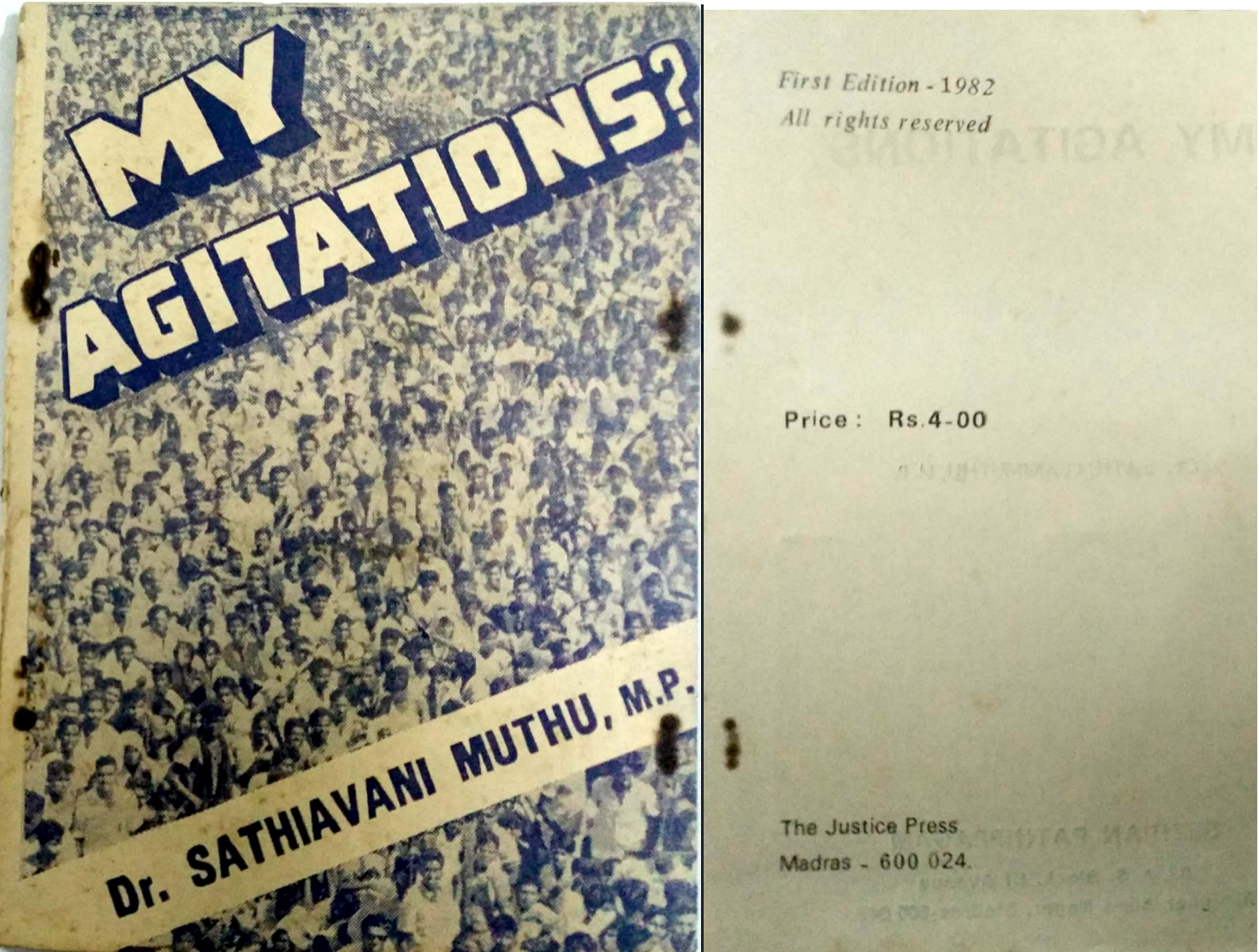 Book cover of My Agitation by Sathyavani Muthu